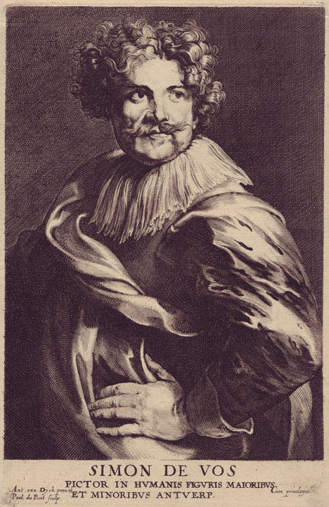 Simon de Vos [Flemish Baroque Era Painter, 1603-1676]